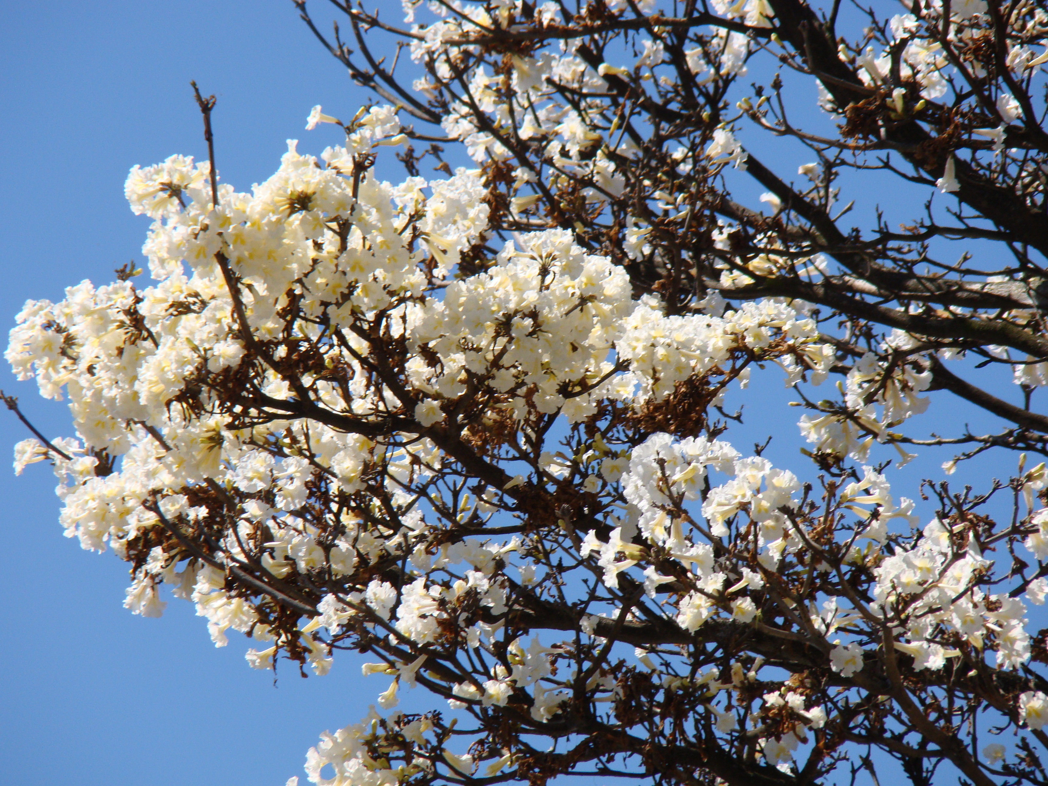 Handroanthus albus